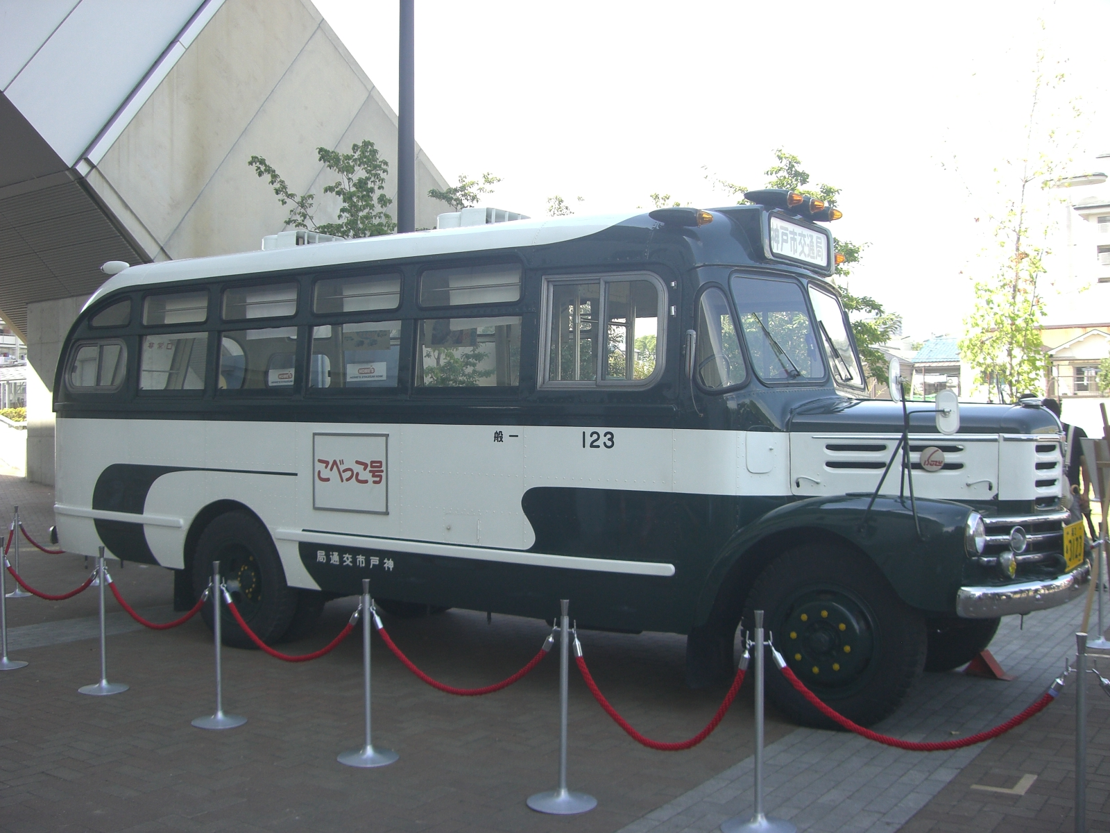 Kobe City Bus "Kobekko" Isuzu BX131